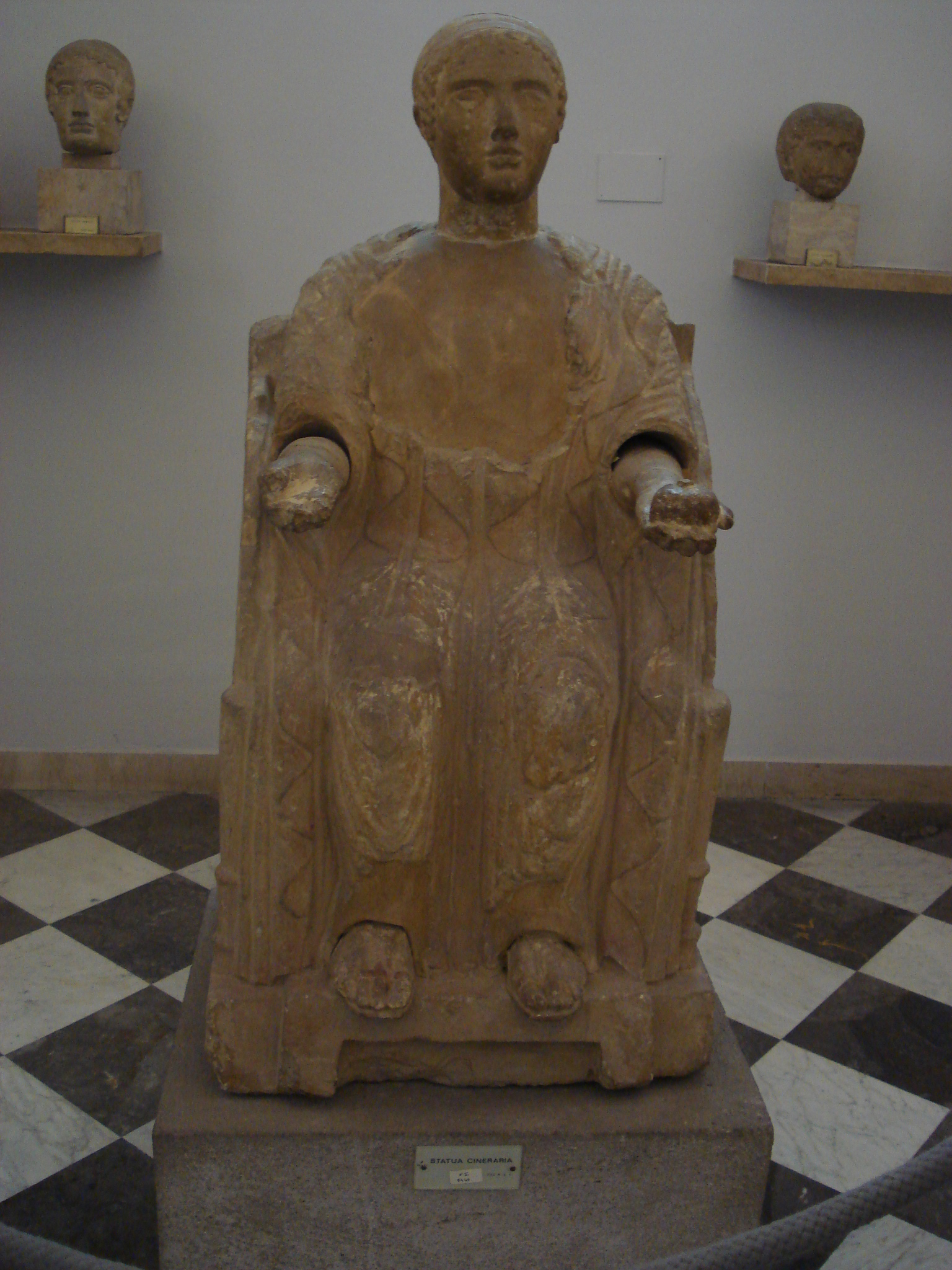 Etruscan terracotta cinerary statue. It represnts Persephone/the deceased woman holding a pomegranate. Feet and hands have been modelled separately. National archeological museum in Palermo, Italy. Picture by Giovanni Dall'Orto, September 28 2006.